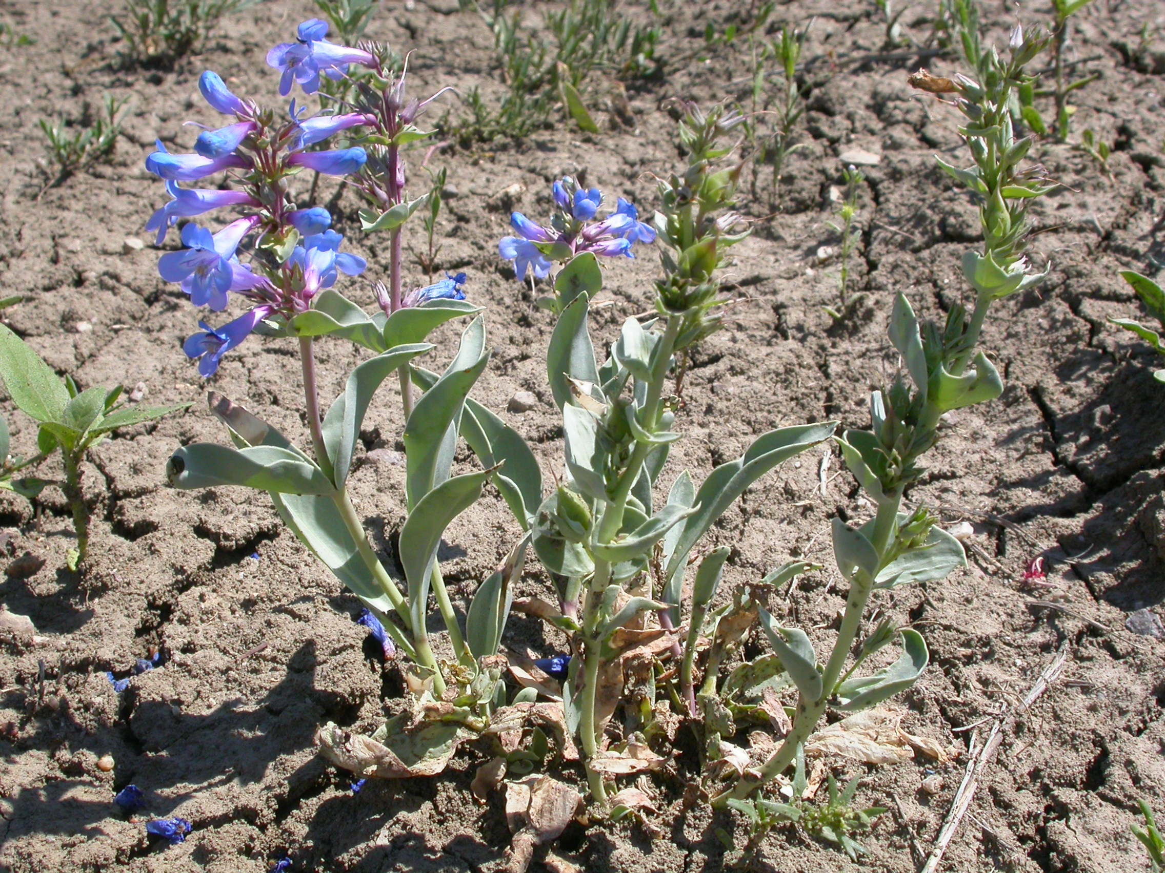 This blue flowered penstemon is fairly common on the clayey slopes. The leaves and stems are glabrous and glaucous, thus rendering the common name waxleaf penstemon.